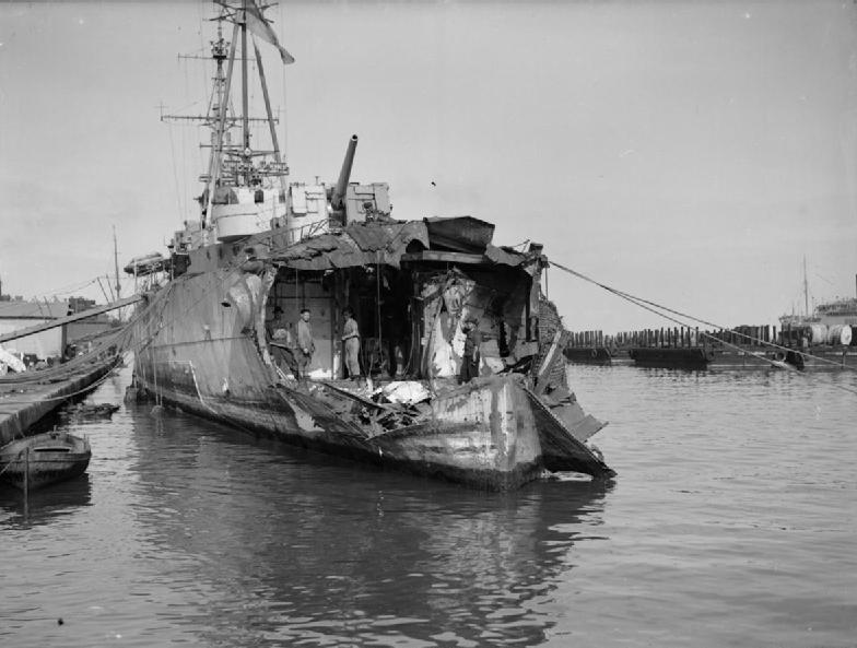 IWM caption : Severe bomb damage to the stern of HMS DELHI. Note the men stood on the lower decks of the cruiser. The anti aircraft cruiser suffered bomb damage during North African operations in 1942